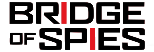 "Bridge of Spies" logo.